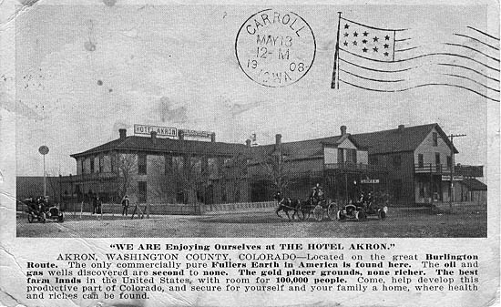 Postcard depicting Hotel Akron in Akron, Colorado, 1908 postmark Source: Web page titled "Penny Postcards from Colorado / A USGenWeb Archives Web Site" (description) (image)